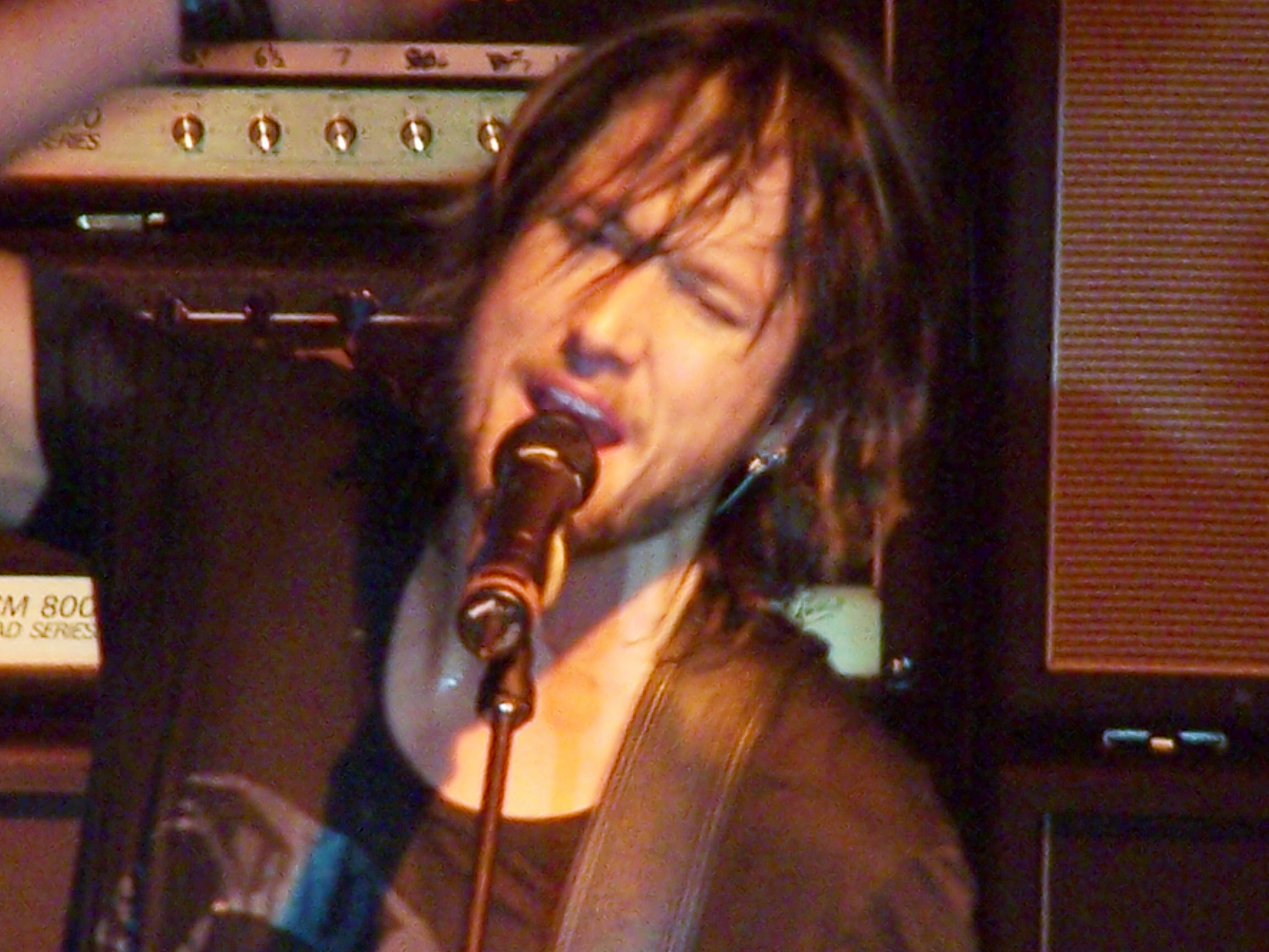 Don Evans, Photo taken at Carling Academy, Birmingham 12/10/2005